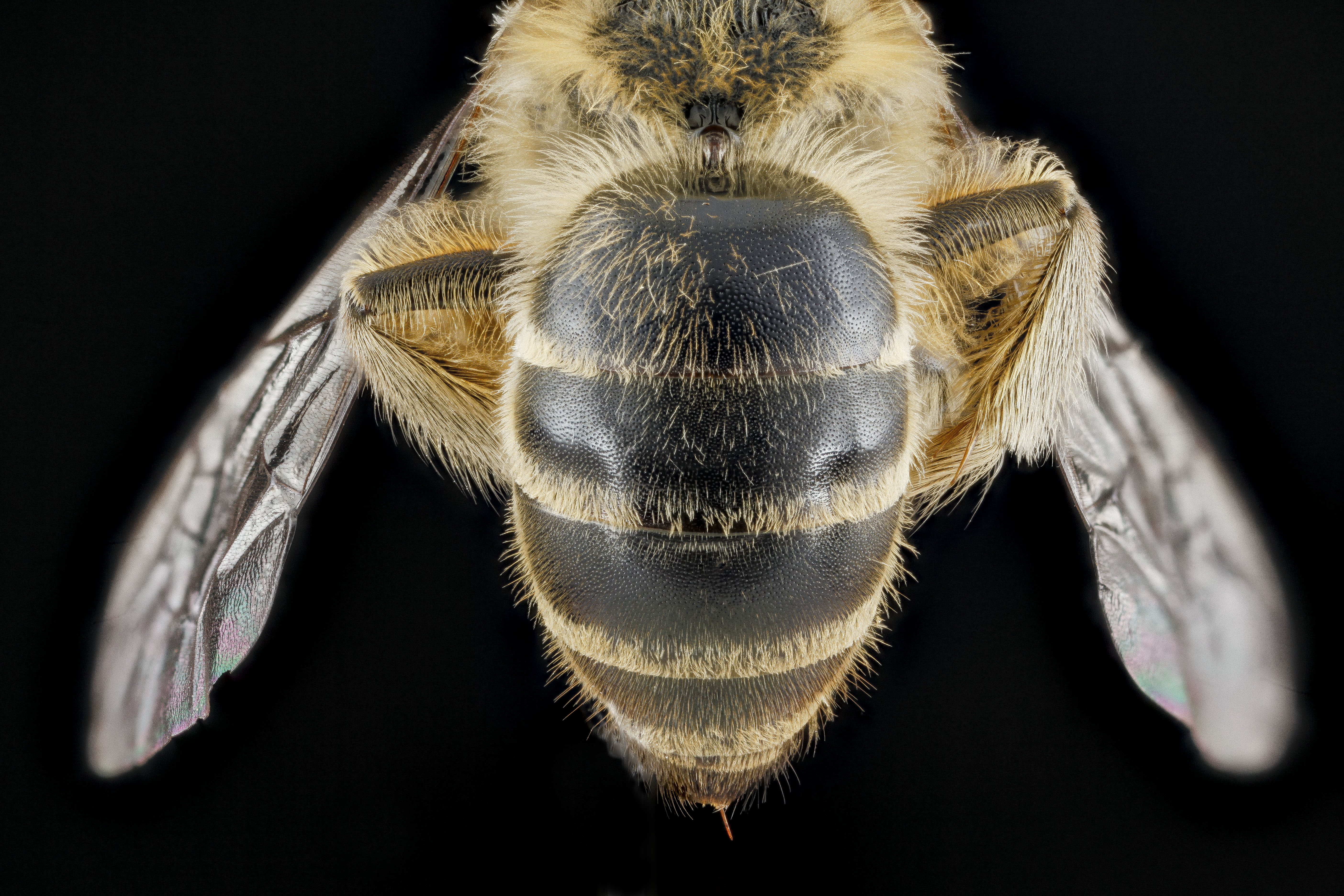 Colletes inaequalis, Prince George's County, MD